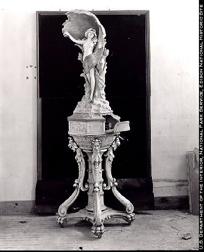 Phono cabinet built with Edison Cement 08.120/13 Description: Cabinet for phonograph built with Edison cement consisting of a statue atop a base. - Three quarters view. The clockwork portion of the phonograph is concealed in the base beneath the statue; the amplifying horn is the shell in behind the human figure. August 2, 1912. 08.120/13